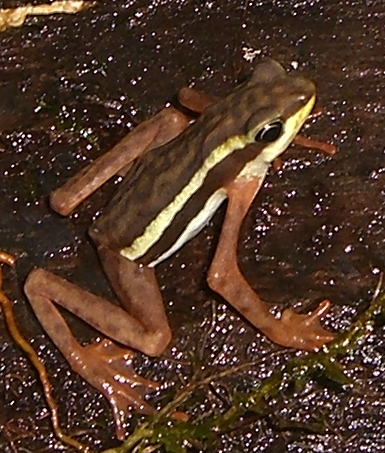 Please report references to .